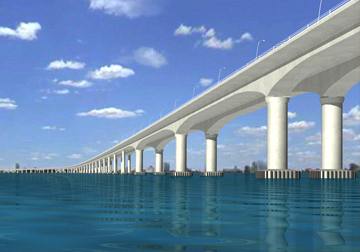 Trans harbor link animation